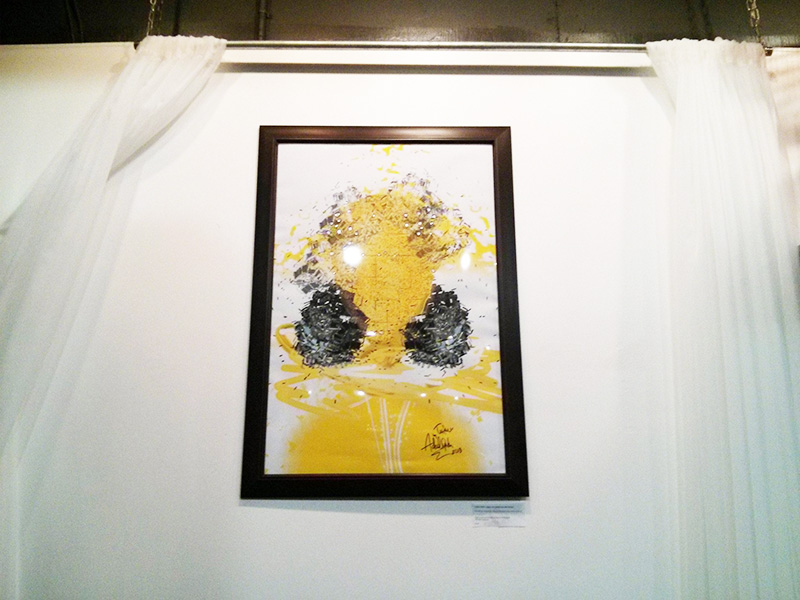 Digital Painting by visual designer Olufeko Ade, showcased at ENCORE Visual Collaborative exhibition December 2013